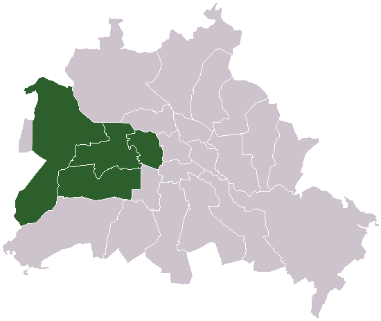 Berlin, Germany – after WWII, British zone